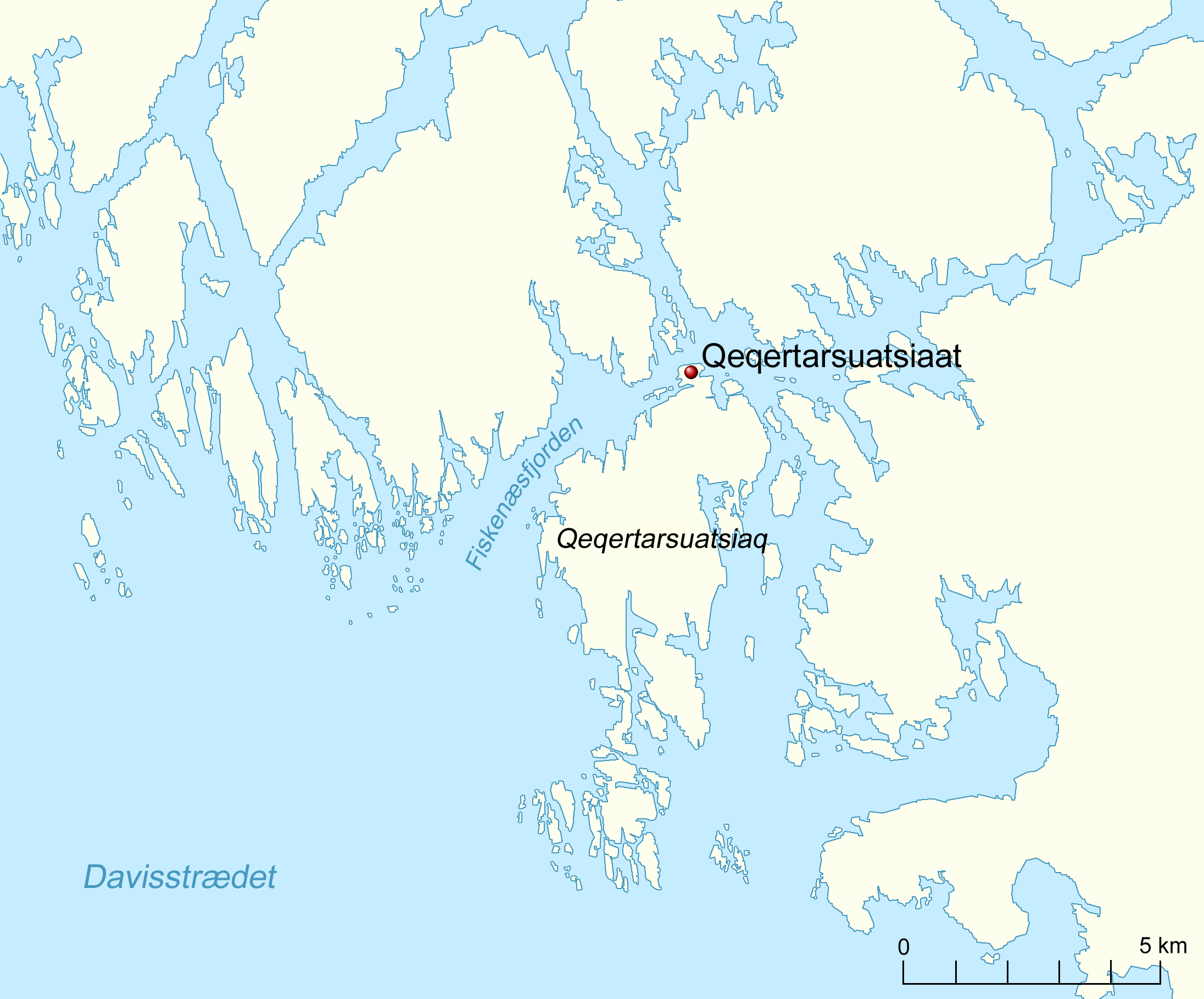 Map of Qeqertarsuatsiaat The color change is made by me. This map of Qeqertarsuatsiaat, Greenland was created from OpenStreetMap project data, collected by the community. This map may be incomplete, and may contain errors. Don't rely solely on it for navigation.